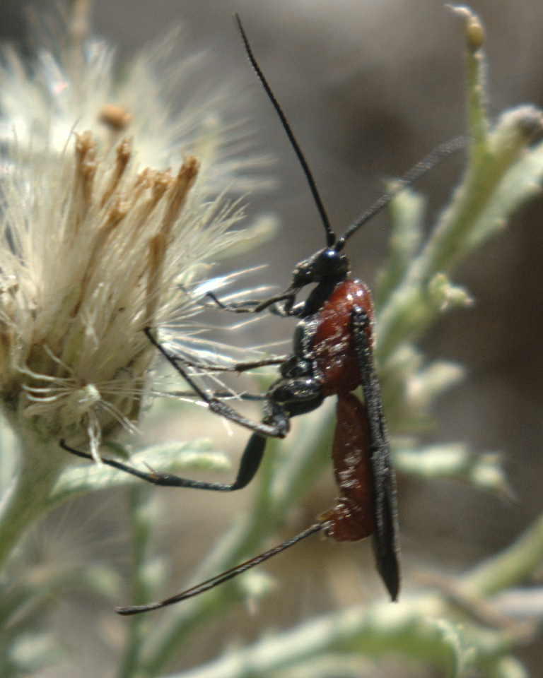 Female parasitic wasp of the subfamily Agathidinae, my yard, Española, New Mexico. Thanks to Eric R. Eaton at for ID.